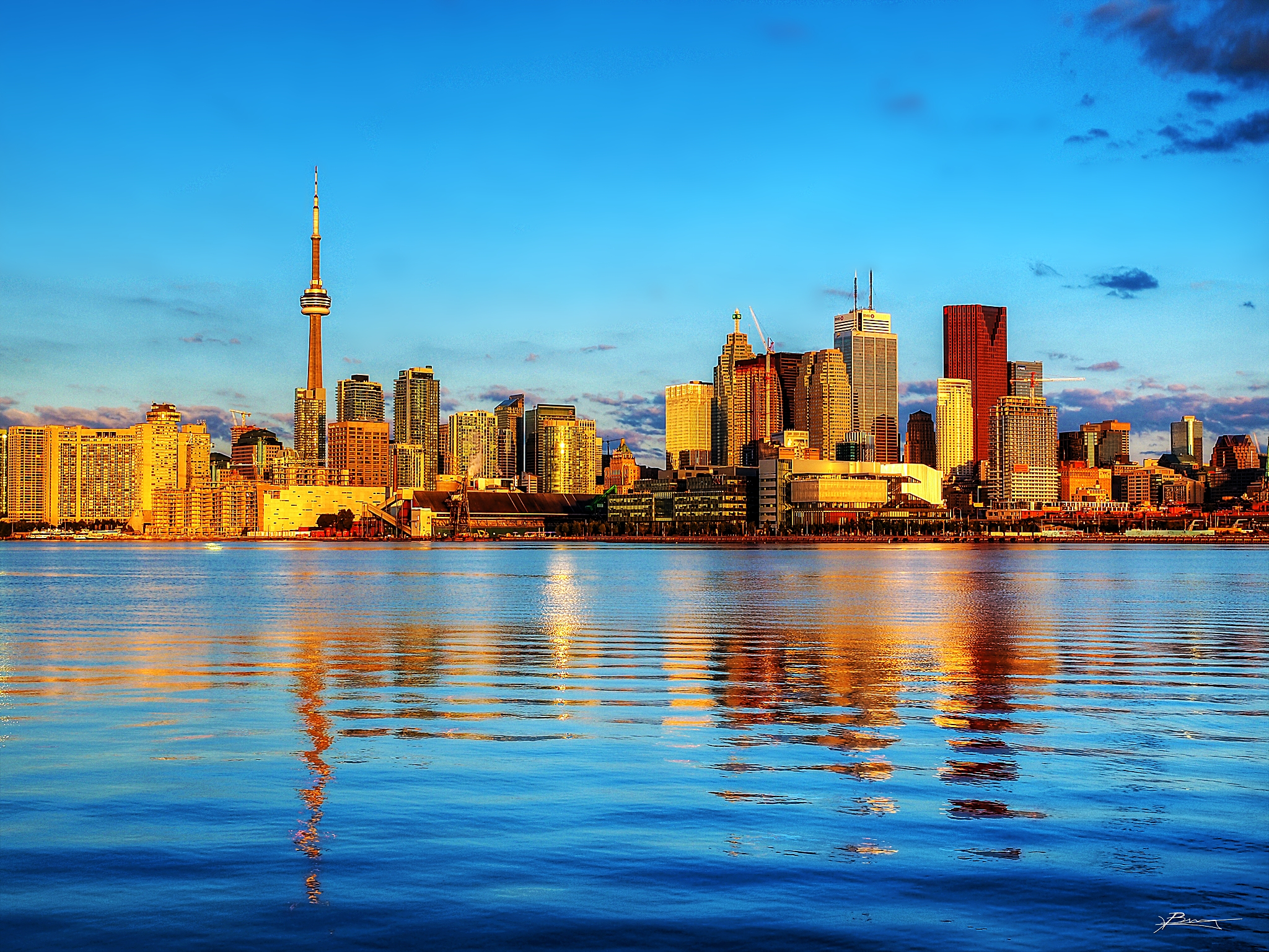 morning view of toronto